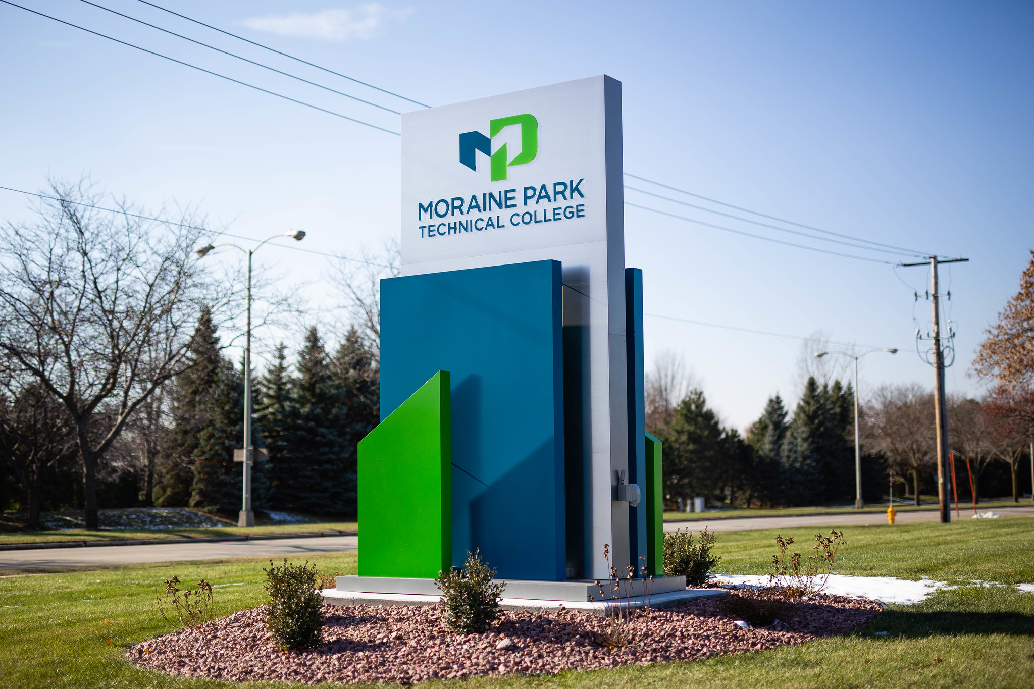 Moraine Park Technical College exterior sign